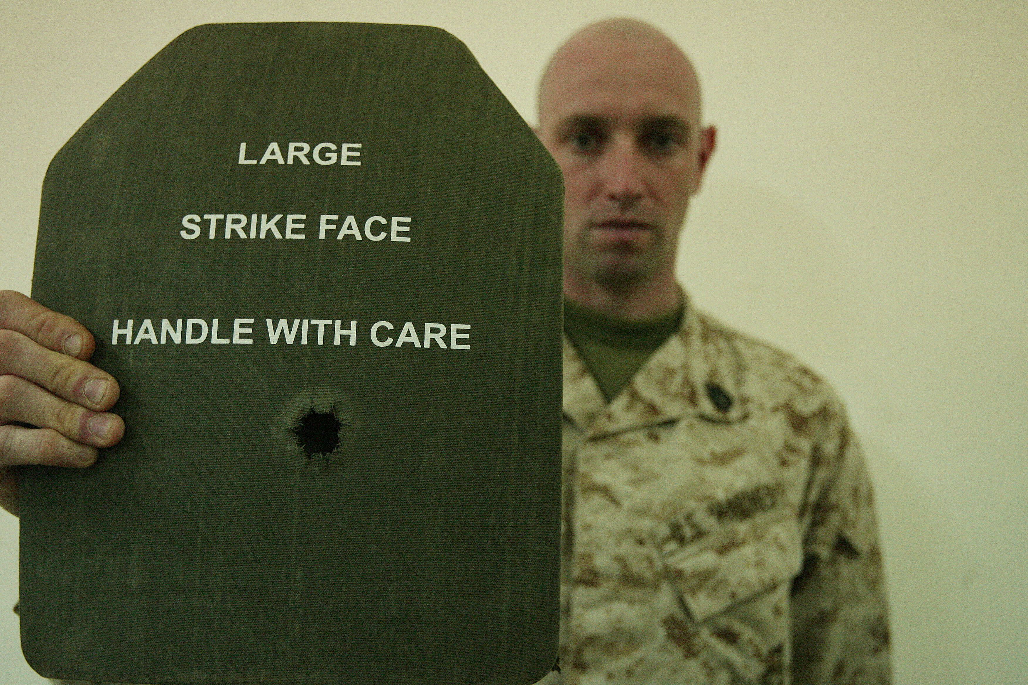 Gunnery Sgt. Shawn M. Dempsey, a platoon commander from Jersey City, N.J., assigned to Weapons Company, 2nd Battalion, 8th Marine Regiment, Regimental Combat Team 5, holds up the small-arms protective insert that saved his life. Dempsey was shot in the back by an insurgent while conducting operations in the Al Anbar Province.